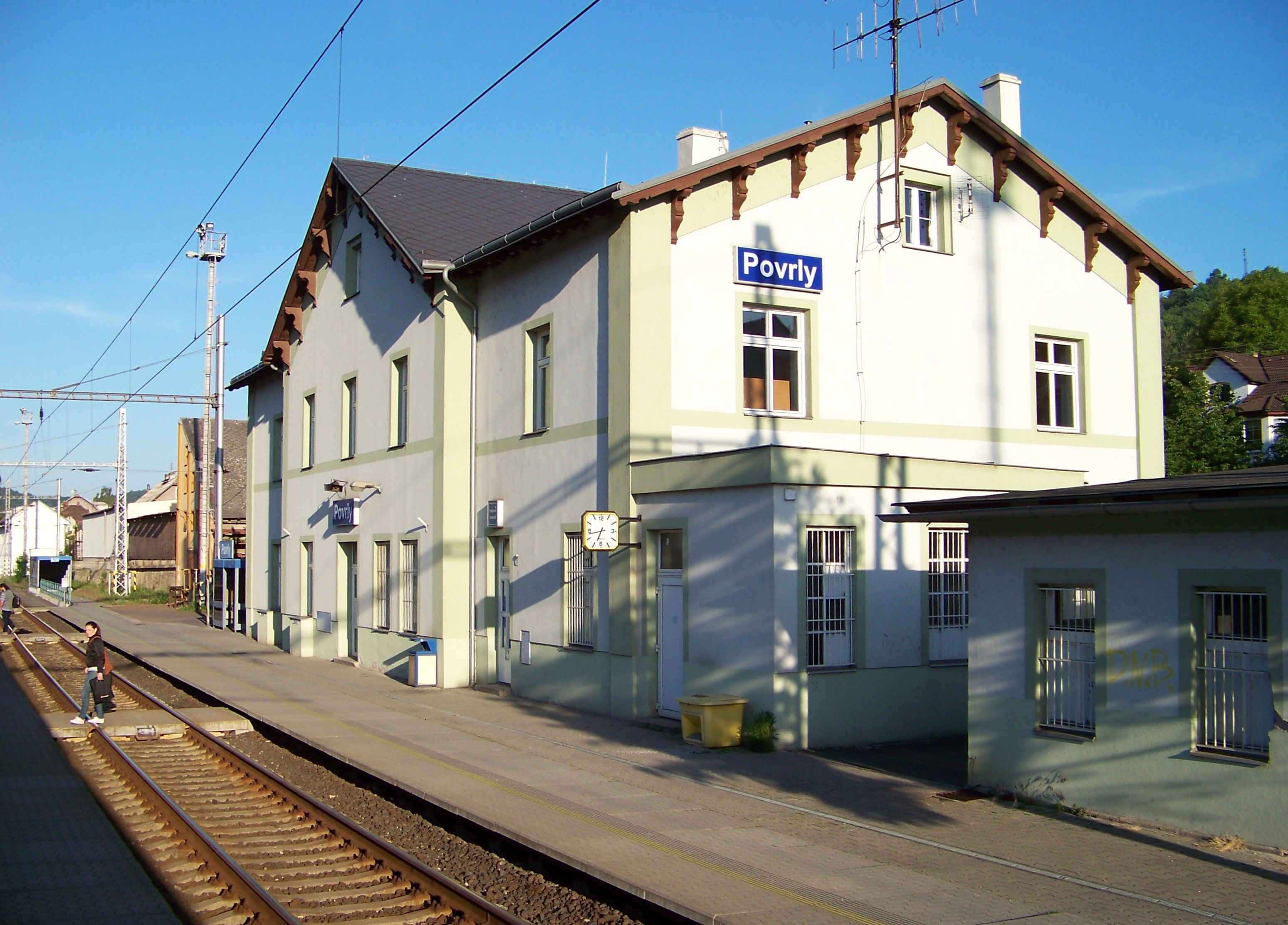 Povrly, Ústí nad Labem District, Ústí nad Labem Region, the Czech Republic. Train station Povrly, seen from the train.